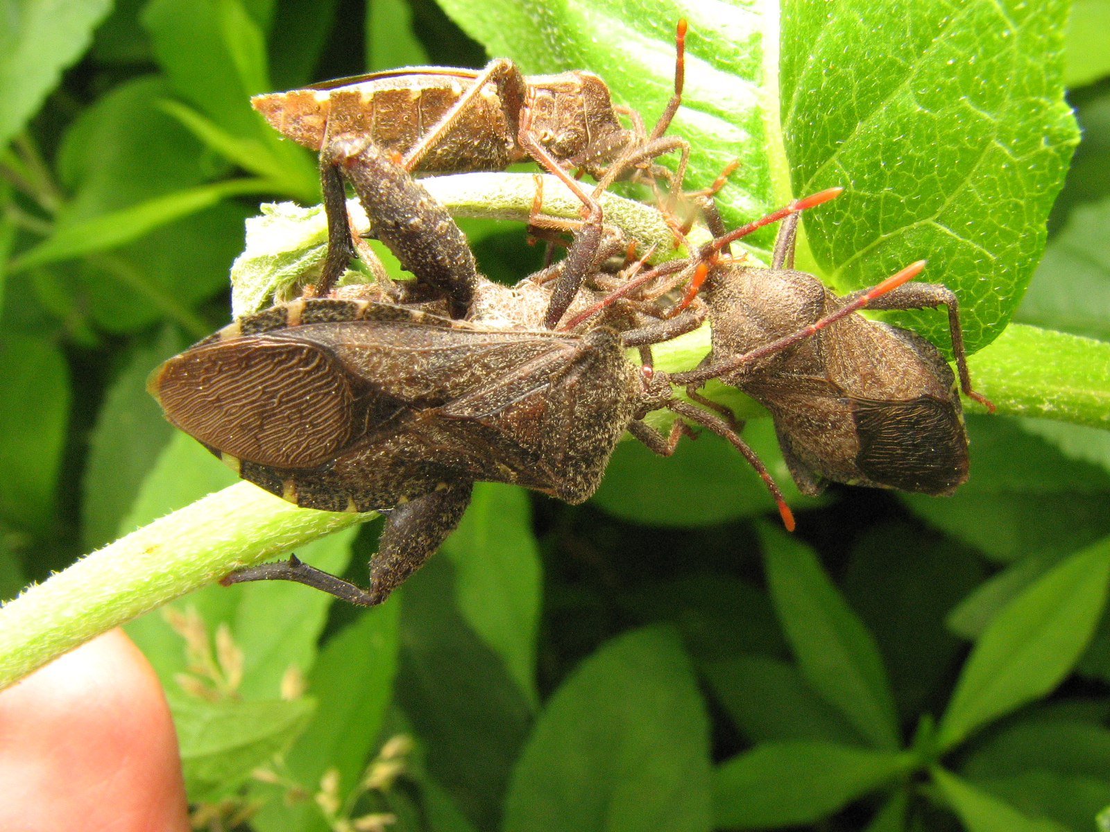 Coreid bugs, Piezogaster, mating. Corneille Bryan Native Garden, Lake Junaluska, Haywood County, North Carolina, USA. 35.5286° N, 82.9770° W.